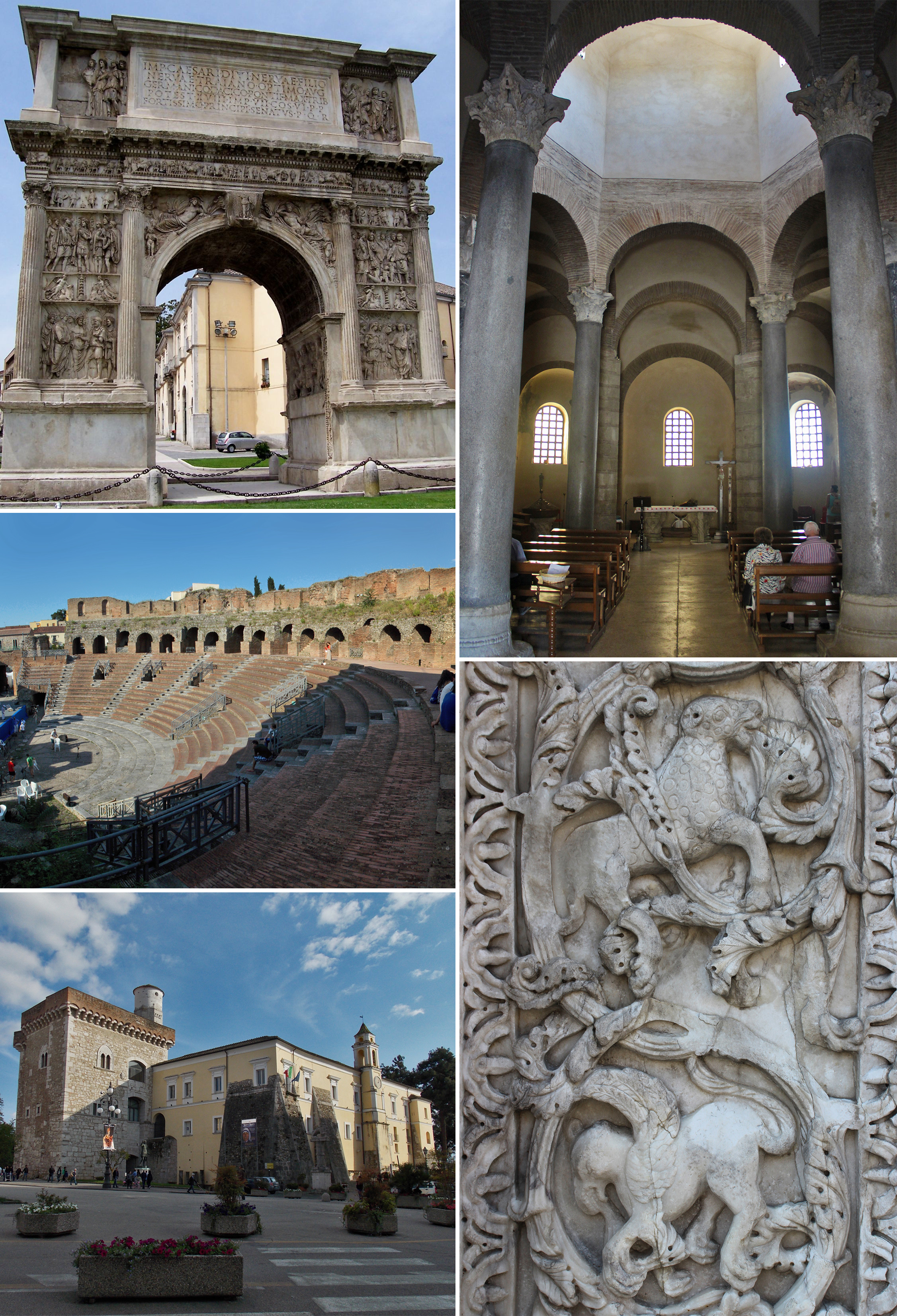 Collage of some of the main landmarks of Benevento